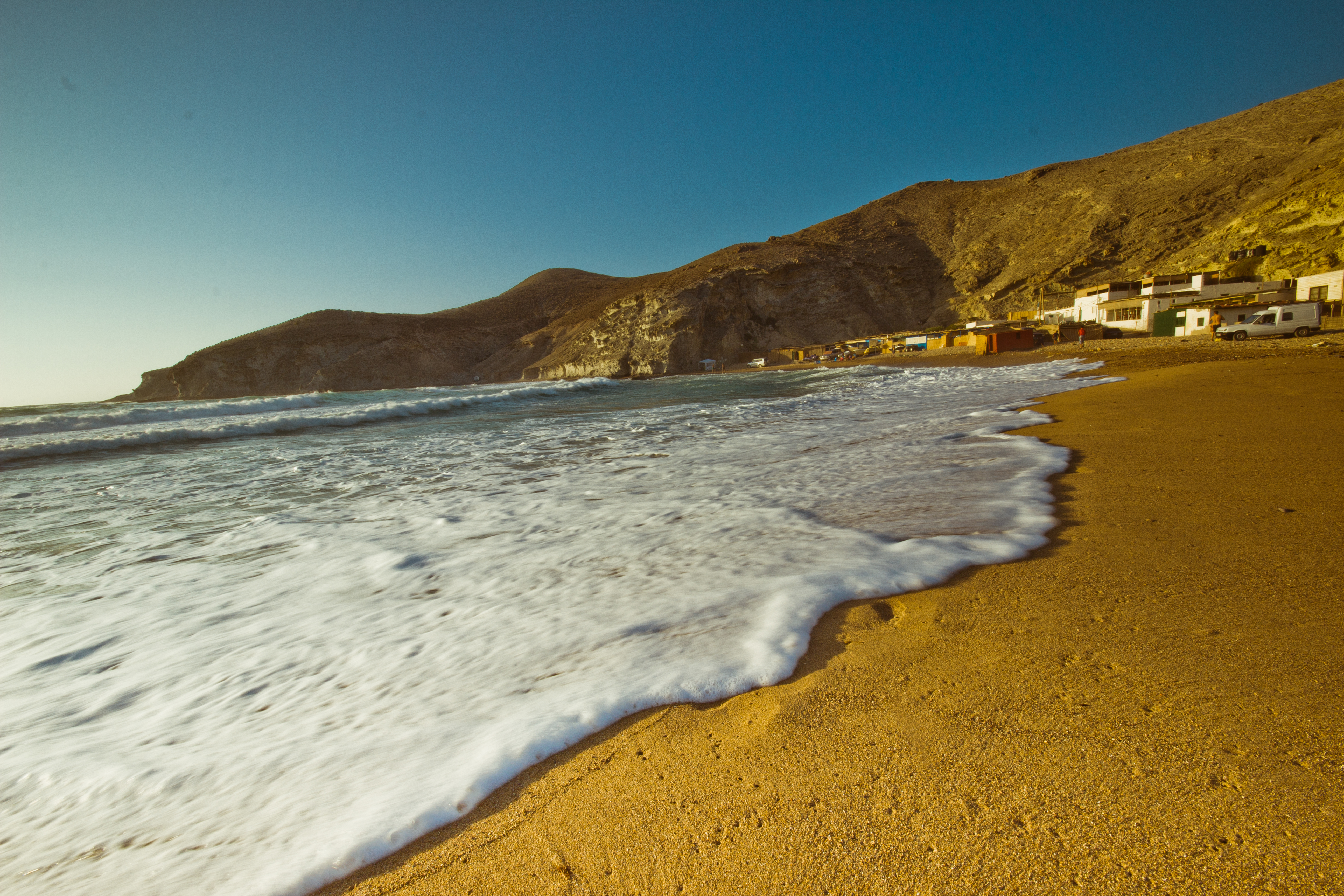 South Mediterranean El-maghreb